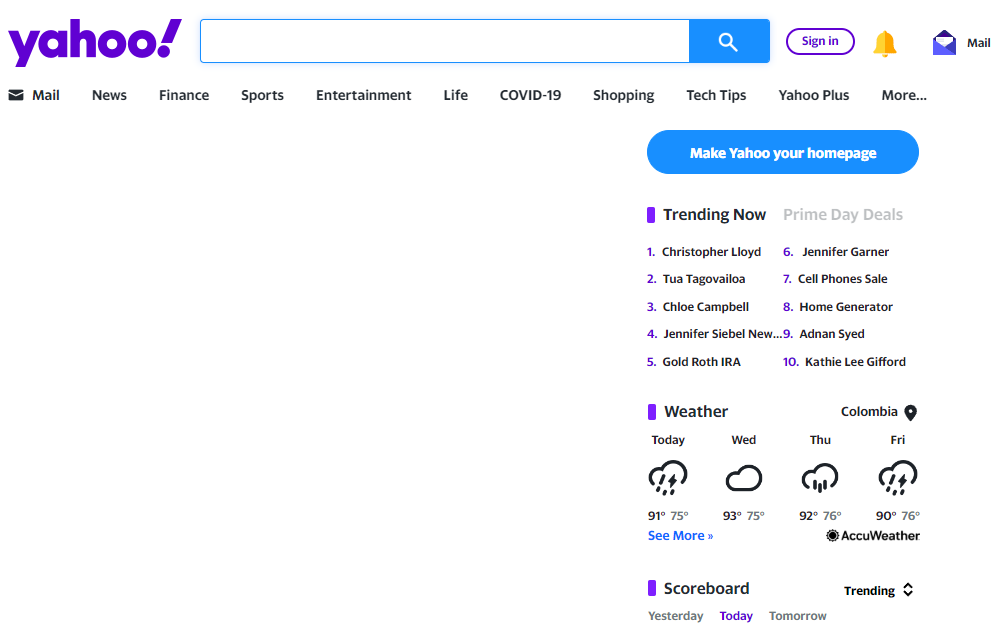 2019 Screenshot of Yahoo!, is a web search engine owned by Yahoo, headquartered in Sunnyvale, California.